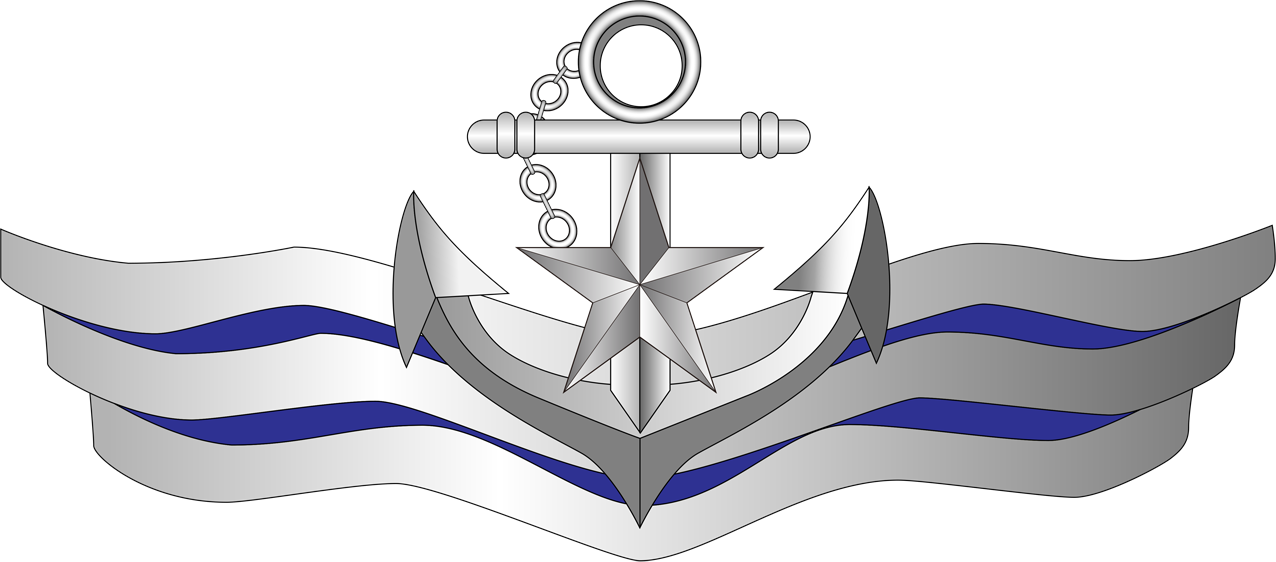 中文（中国大陆）: The emblem of People's Liberation Army Navy 中国人民解放军海军标志